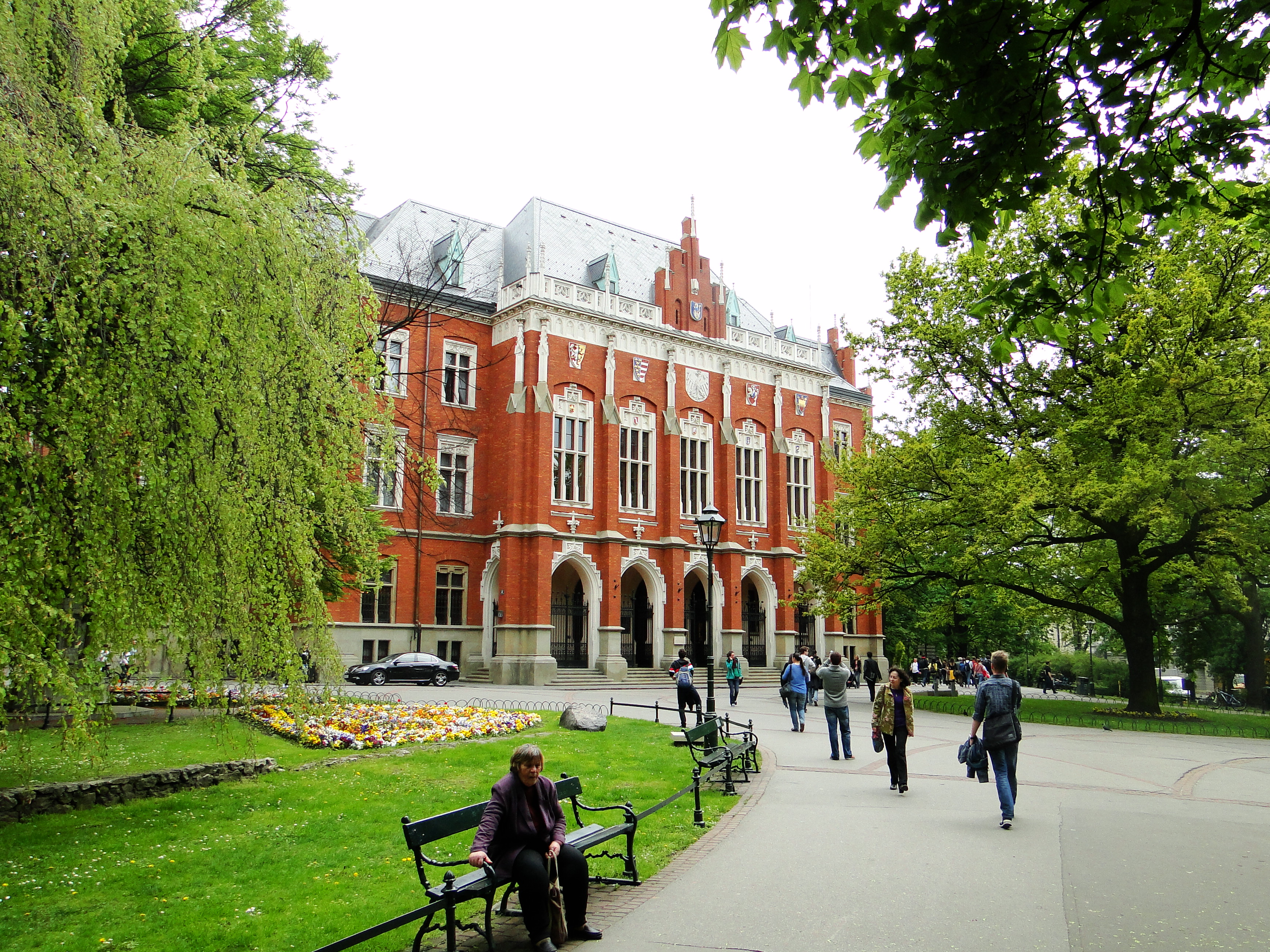 Collegium Novum, Jagiellonian University, Kraków, Poland